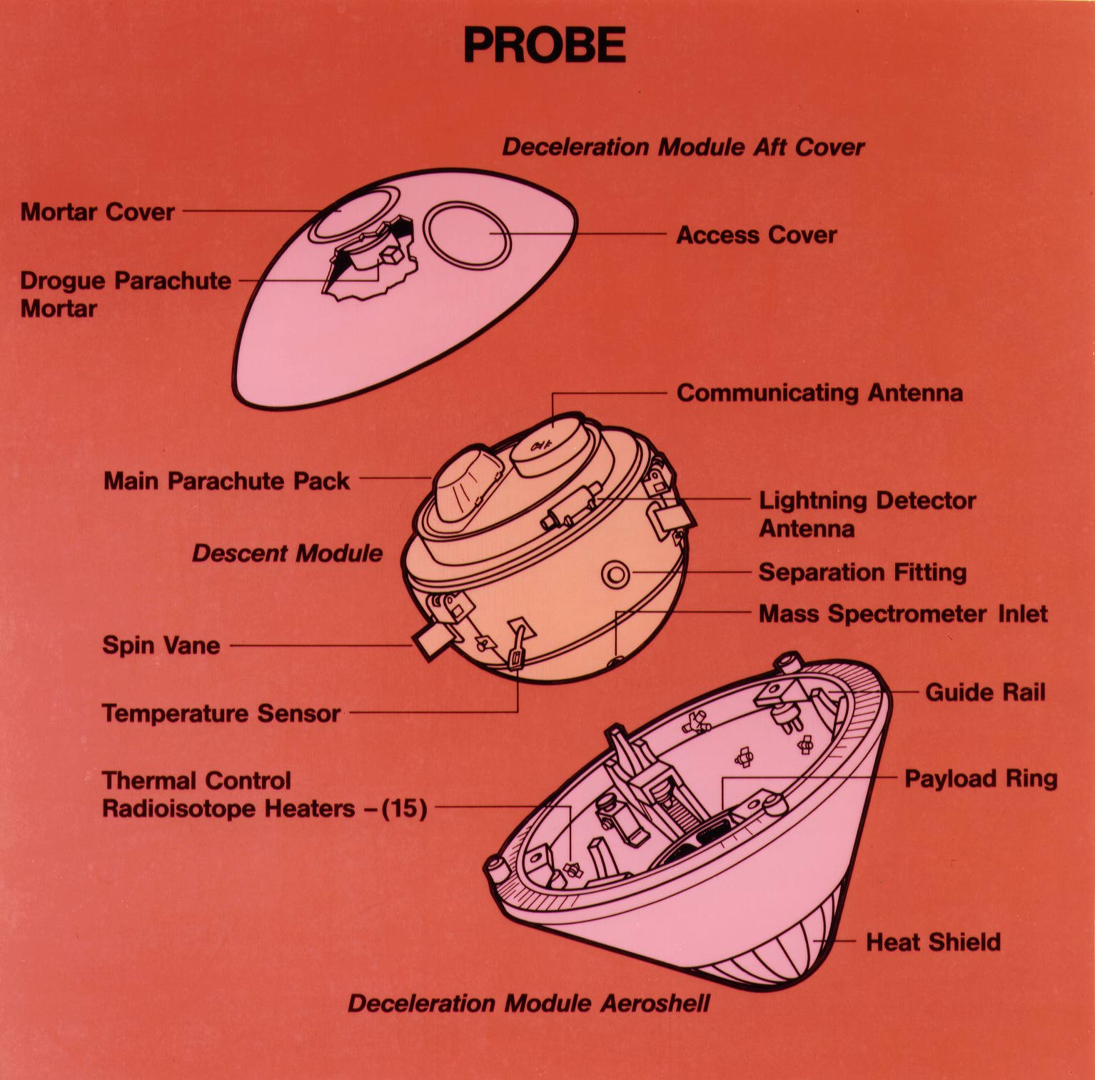 The Galileo Probe diagram show the major elementes and systems of the probe.